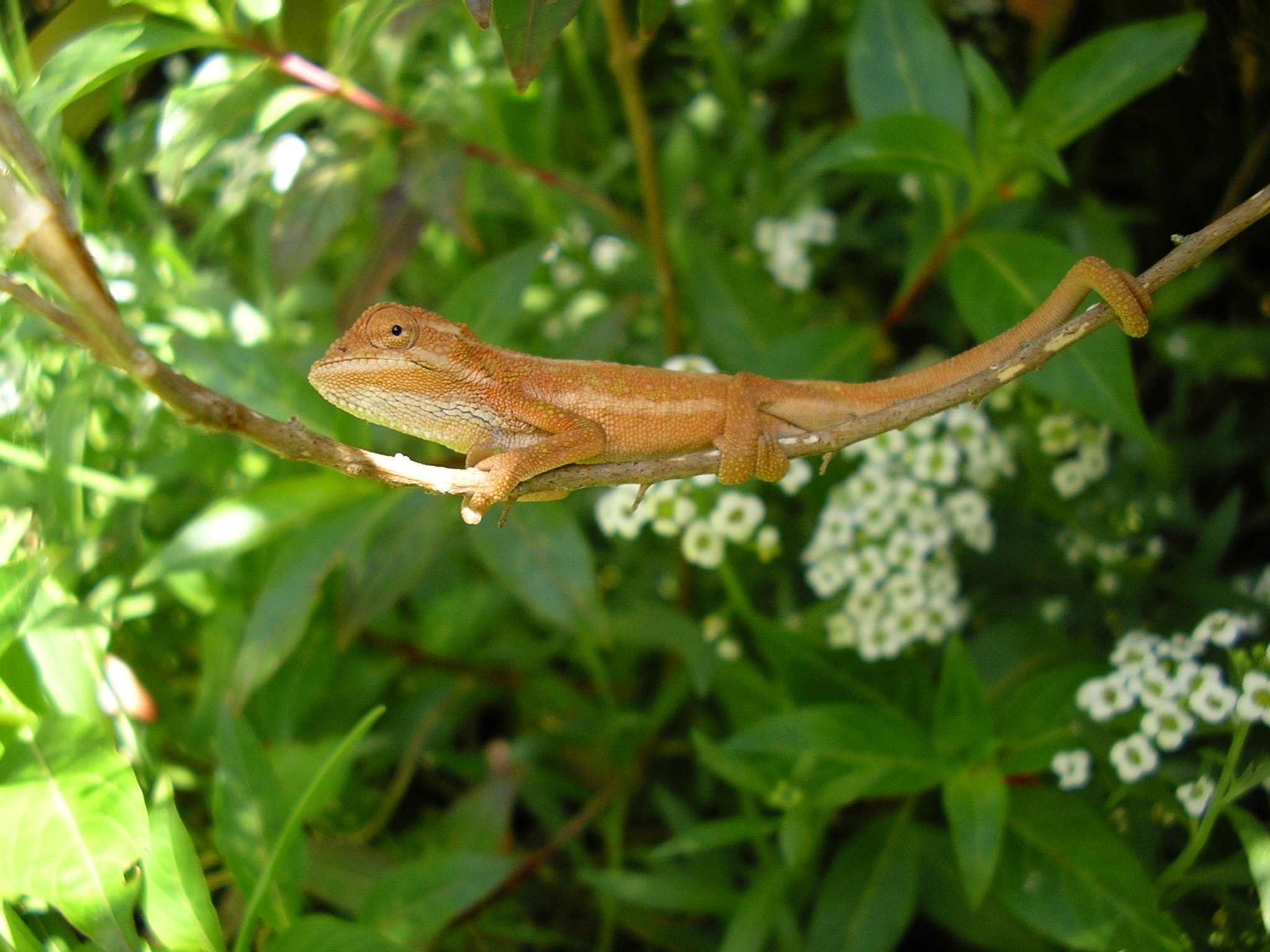 Author: Michael Wood (me) Taken in my garden in Kenilworth, Cape Town, South Africa.